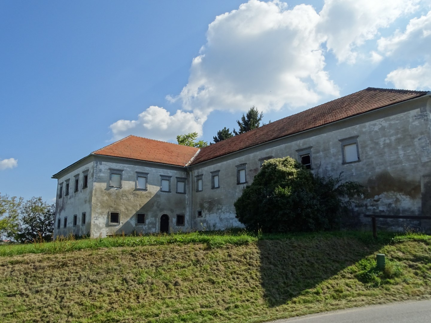 mansion Železne dveri, Ljutomersko-ormoške gorice